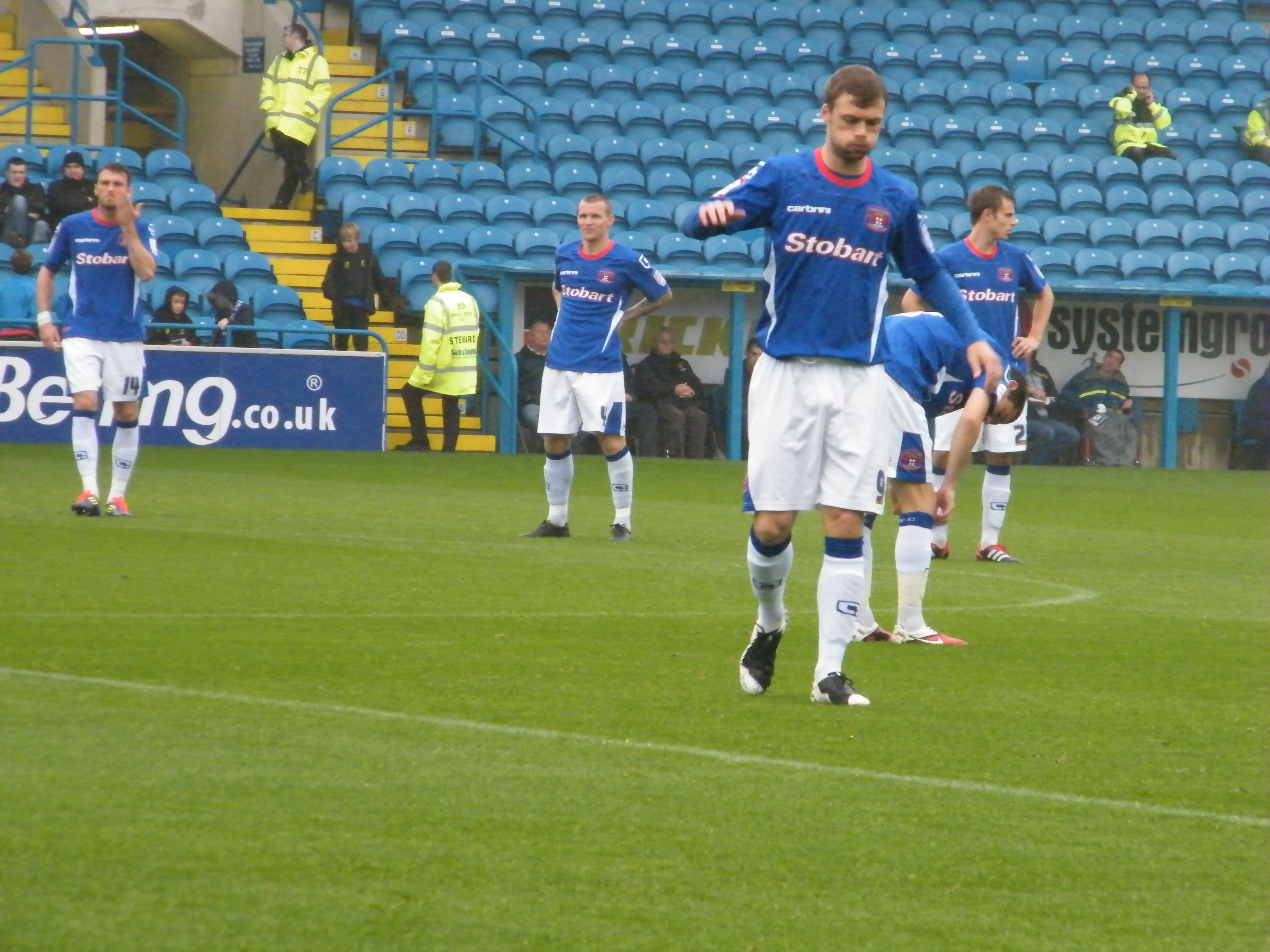 Carlisle V Brentford 8th October 2011